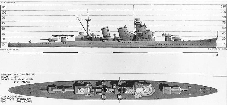 World War II era recognition drawings for Aoba-class heavy cruisers.